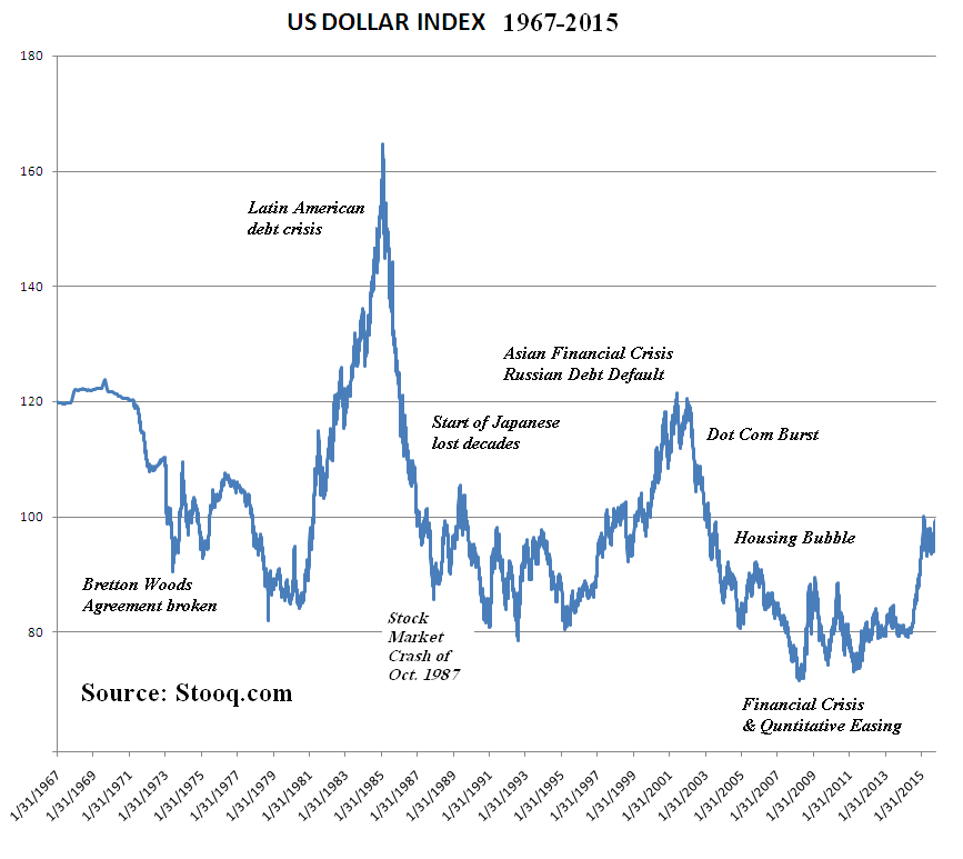 A graph showing major financial events and US Dollar Index (USDX, DXY)